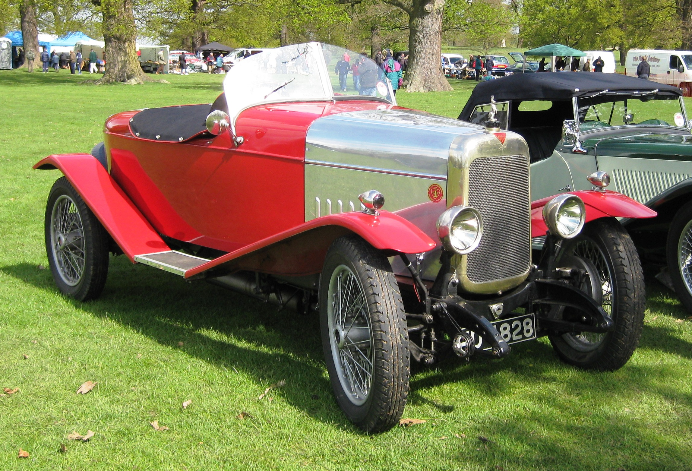 Alvis 12/50 Sports at Oldtimer Fest at Woburn 1932 TJ with ducksback body by Lambourne of Farningham Reg: YD 4828 Chassis: 9705 Engine: 8973 source of info and another source